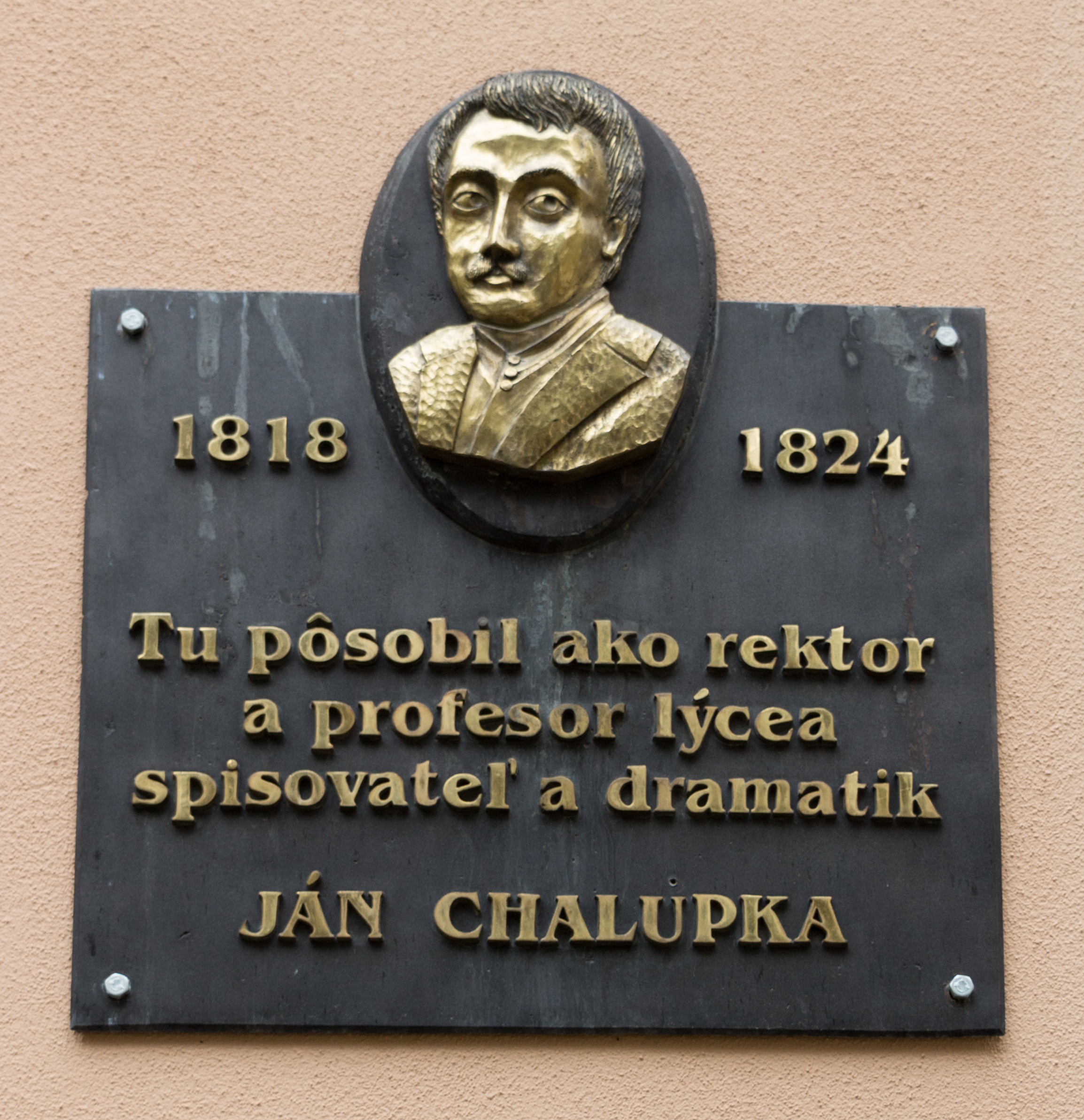 Plaque on the wall of Lyceum in Kežmarok. Slovakia